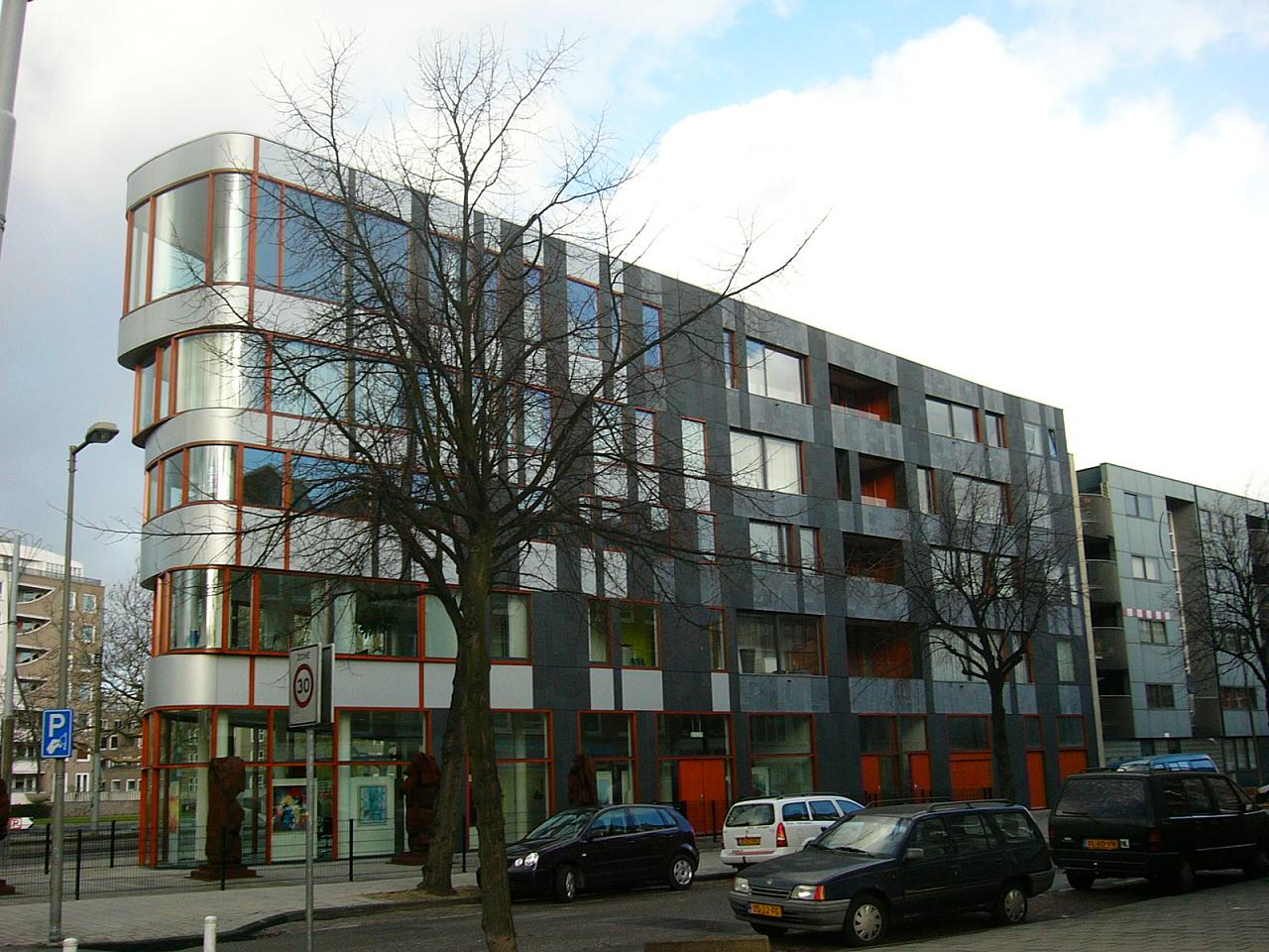 Tropenpunt, Amsterdam, 2002. Architect Erick van Egeraat